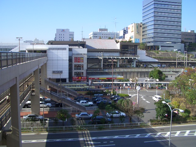 East exit of Higashi-Totsuka Station